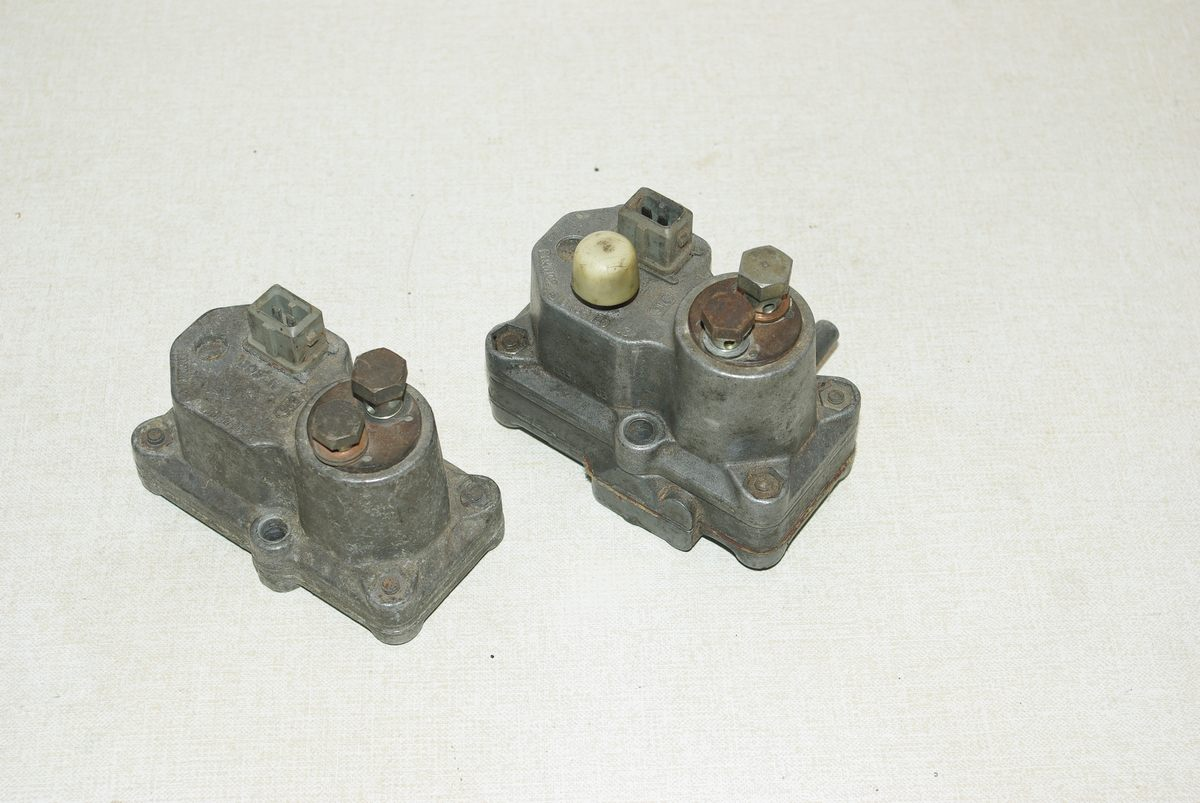 Warm-up regulator, left: Ford, Bosch-Part-Nr. 0 438 140 073 right: Audi/VW with vacuum connector, Bosch-Part-Nr. 0 438 140 034